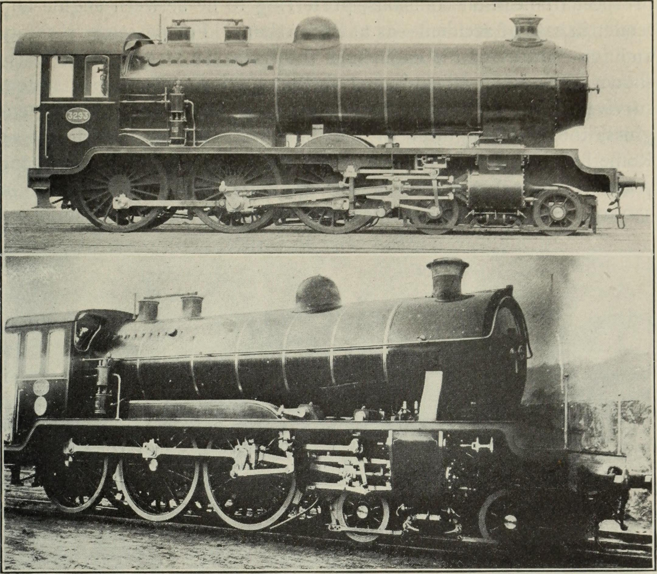 Title: Factory and industrial management Year: 1891 (1890s) Authors: Subjects: Engineering Factory management Industrial efficiency Publisher: New York (etc.) McGraw-Hill (etc.) Text Appearing Before Image: riG. 47. BAR FRAME COMPLETE, AS MADE OF STEEL CASTINGS IN SAXONY. In France the most recent type of locomotive of the Henry systemwas designed under Mr. Baudry, late of the Paris-Lyon Ry., in 1904,Figure 50. It has four valve mechanisms but the low-pressurevariation is practically non-existent, as the cut-oiT for them remainsat 63 per cent whatever admission is given by the high-pressurevalves, thus differing from all other French distributions. EUROPEAN LOCOMOTIVE WORK. 725 Text Appearing After Image: FIG. 49. RECENT BELGIAN BALANCED COMPOUNi), KEPKESEN11NG SCOiCH ENGINES ADAPTED.FIG. 48. BELGIAN STATE FOUR-CYLINDEK NON-COMPOUND, NO. 3302 SERIES. The four-cylinder balanced Adriatic compound shown in Figure38 is the last of its series. The enginemen, although infinitely betteroff with the reversed arrangement of the boiler, disliked the idea, in